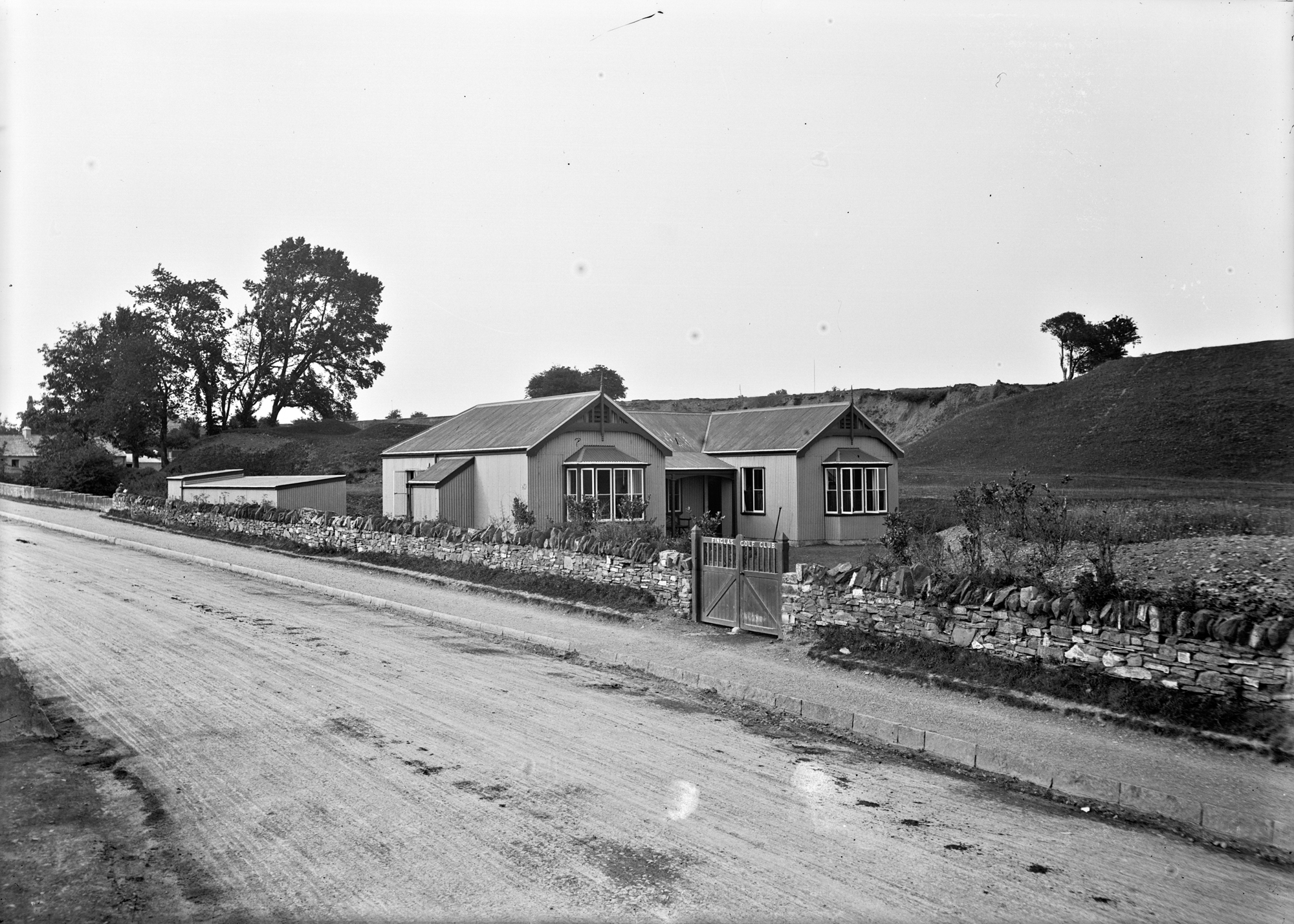 From yesterdays funeral in "God Knows Where" to today's location close to Irelands best known cemetery! If ever there was a location that has "changed, changed utterly" then this surely is it! Finglas Golf Club is no more, the roads and byroads for miles around have been altered beyond recognition. So I perhaps the first to the OSI will tell us where this is? Before we went to the OSI however, a few spotted this similar location hunt on the Glasnevin Heritage FB page. This suggested that the golf course stretched perhaps from Bellevue (off the Tolka Valley Road) to the area of Finglas now occupied by Fairways Estate (which most likely took its name from the course). The general consensus seems to be that we are looking south - with our back to Finglas and looking roughly towards the city. The clubhouse, cottage (left middleground) and sandpit (right middleground) - all now long long gone - were likely those captured in the 1907 OSI 25" map on the Finglas Road. We also learned of some interesting connections to Taoiseach John A Costello, and events of Easter week 1916.... Photographer: Unknown Collection: Eason Photographic Collection Date: c.1900-1939 (though possibly before c.1920 when the club apparently closed) NLI Ref: EAS_1804 You can also view this image, and many thousands of others, on the NLI’s catalogue at